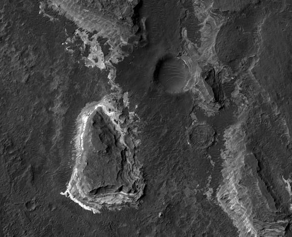 Ladon Valles layers, as seen by hirise. Location is 20.5 South and 330.1 East. Image was taken by the Mars Reconnaissance Orbiter's HiRISE. The HiRISE camera was built by Ball Aerospace and Technology Corporation and is operated by the University of Arizona. Image courtesy NASA/JPL/University of Arizona.